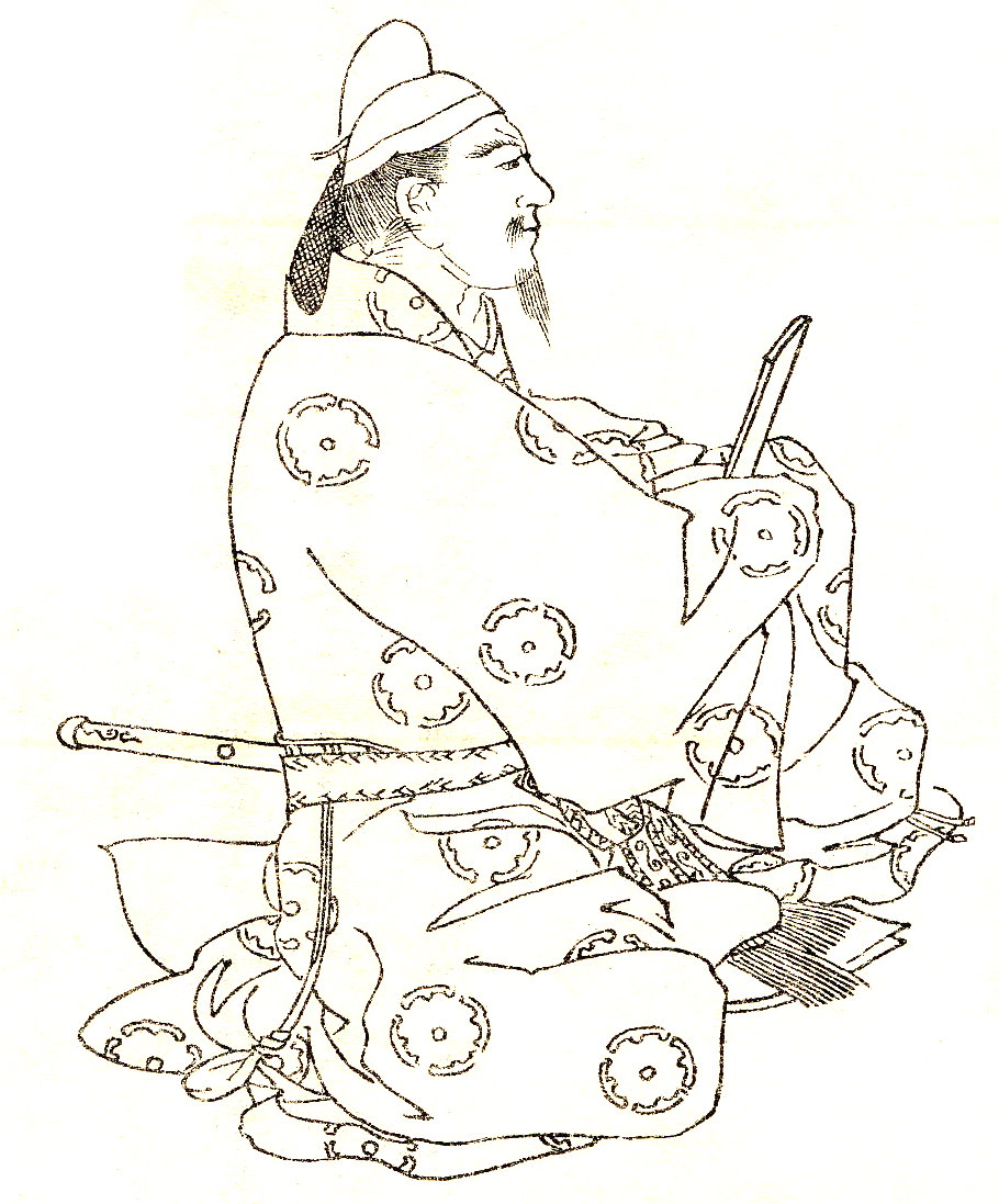 Fujiwara no Umakai（藤原宇合）was a Japanese general, politician, and poet of kanshi and waka of the Heian era. He was son of Fujiwara no Fuhito.This picture was drawn by Kikuchi Yosai（菊池容斎） who was a painter in Japan.